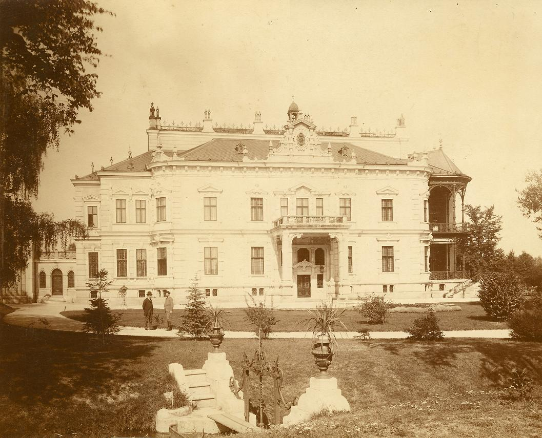 Villa (Castle Nadelburg) built between 1880 and 1882. There lived the owners from the Nadelburg. Planned from a famous architect named Theophil Hansen. He also planned the Parlament in Vienna. In 1951 until 1954 the castle was abrupt.